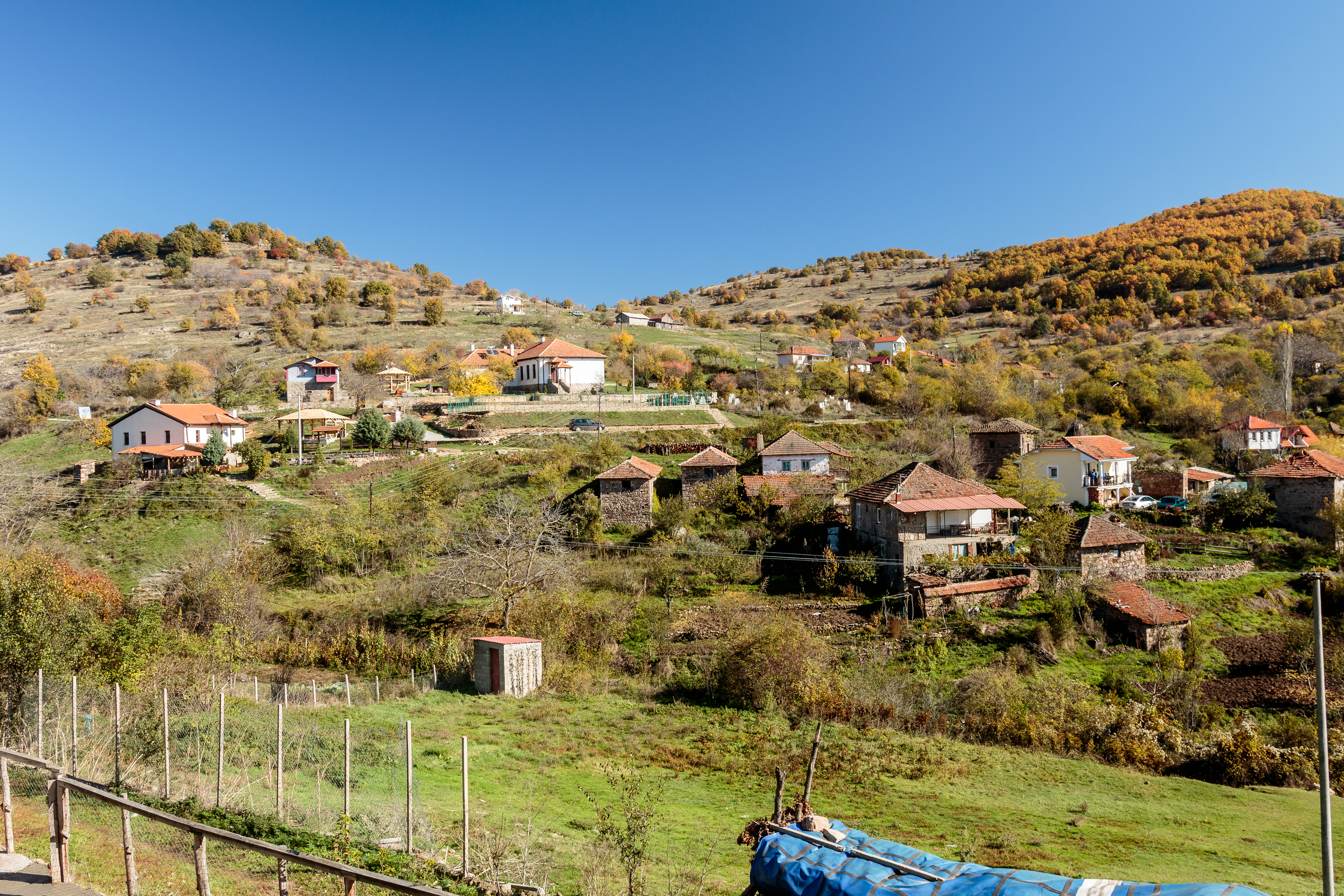 Panoramic view of the village of Lesnovo, Zletovo-Probištip Region, Macedonia